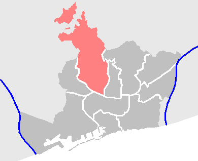 Locator maps of districts/ neighbourhoods in Barcelona: Map - Barcelona - Sarria-Sant Gervasi.PNG